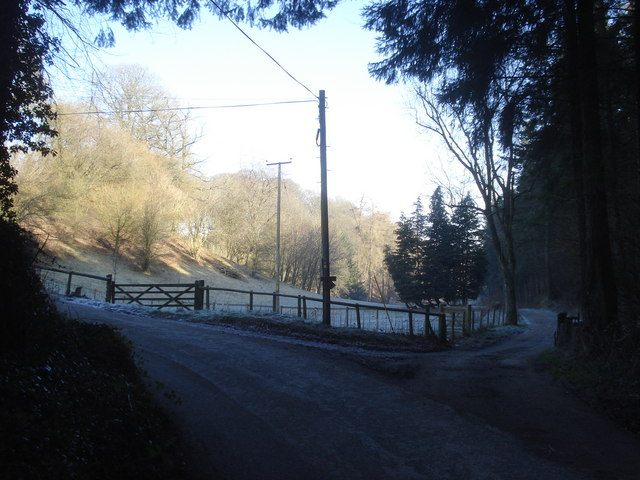 Clearing and motte at Barland View northwards as the lane emerges to this clearing in Middler Wood, which is also the site of a 12th century motte & bailey with the castle mound up to the left.